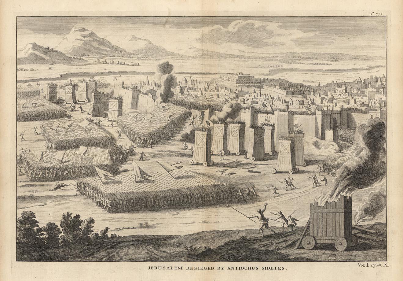 Siege of Jerusalem by Antiochus VII Sidetes in 135-134 BC. Picture from Antoine Augustin Calmet (1720) “Dictionnaire historique, critique, chronologique, geographique et litteral de la Bible” (Paris).